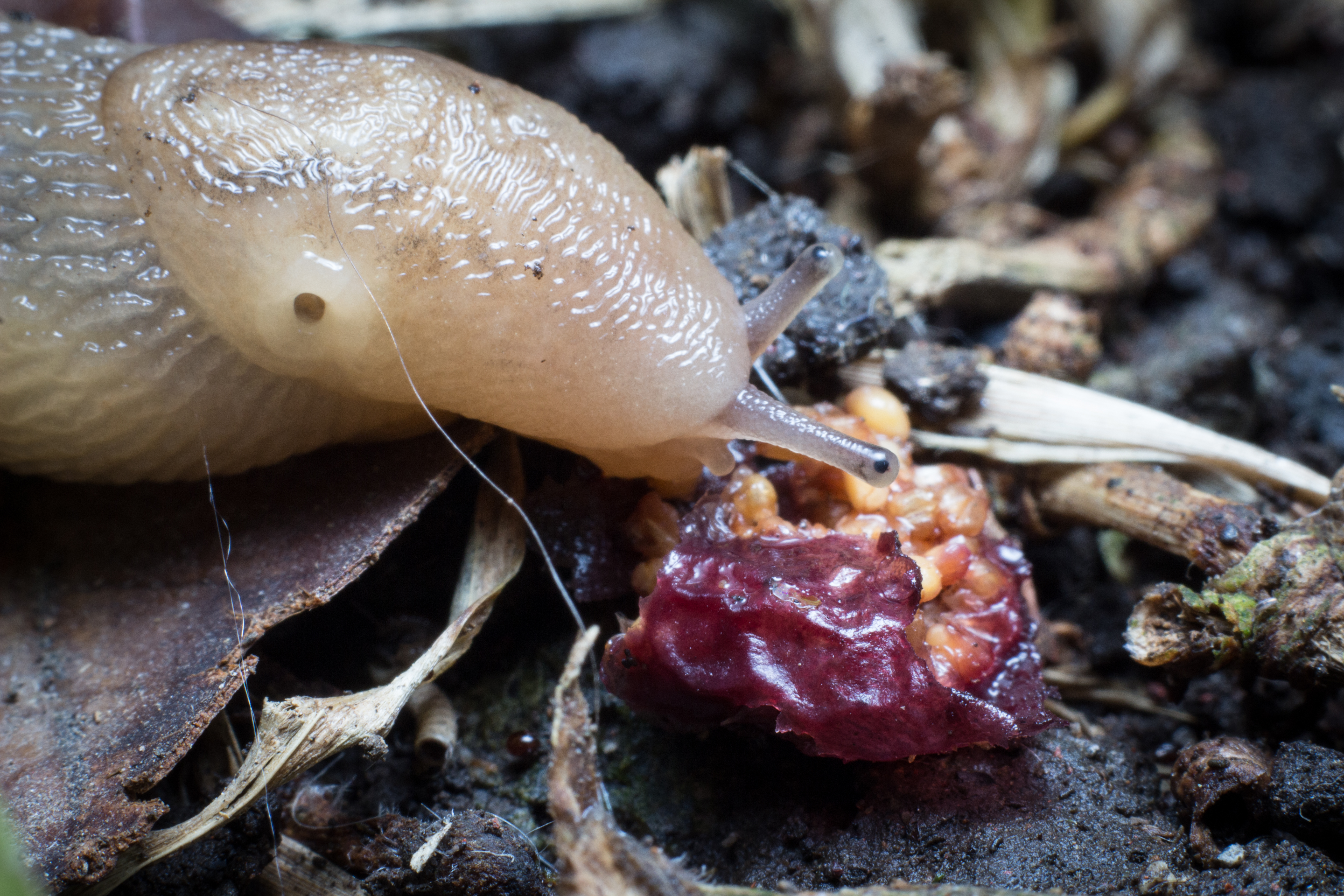 An unidentified Stylommatophoran slug feeding on fruit. Locality: ?.